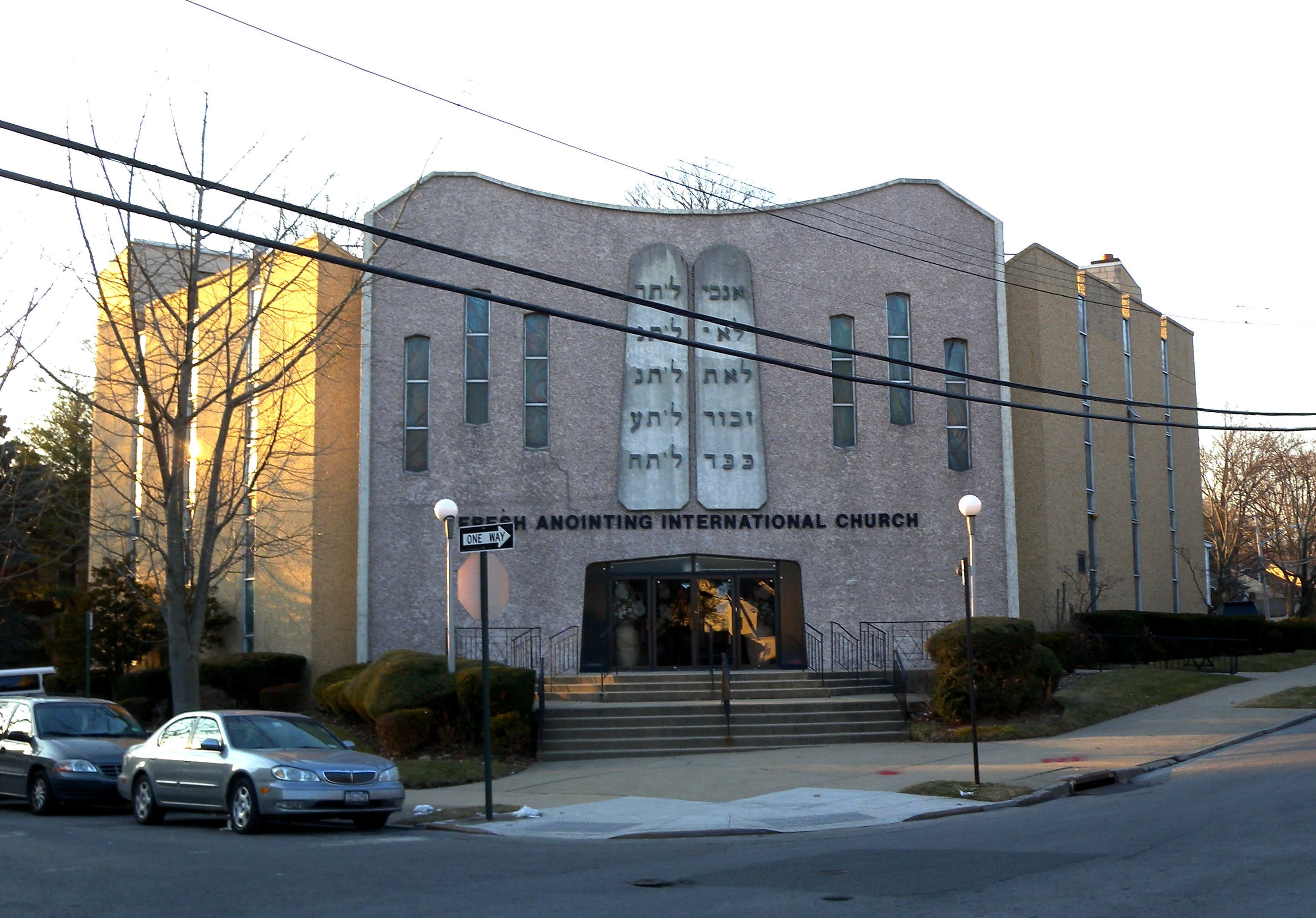 Looking northwest across Dalny Rd and Wexford Terrace at Fresh Anointing International Church in Jamaica Estates, Queens (formerly this building housed the Conservative Synagogue of Jamaica Estates) on a sunny late afternoon.